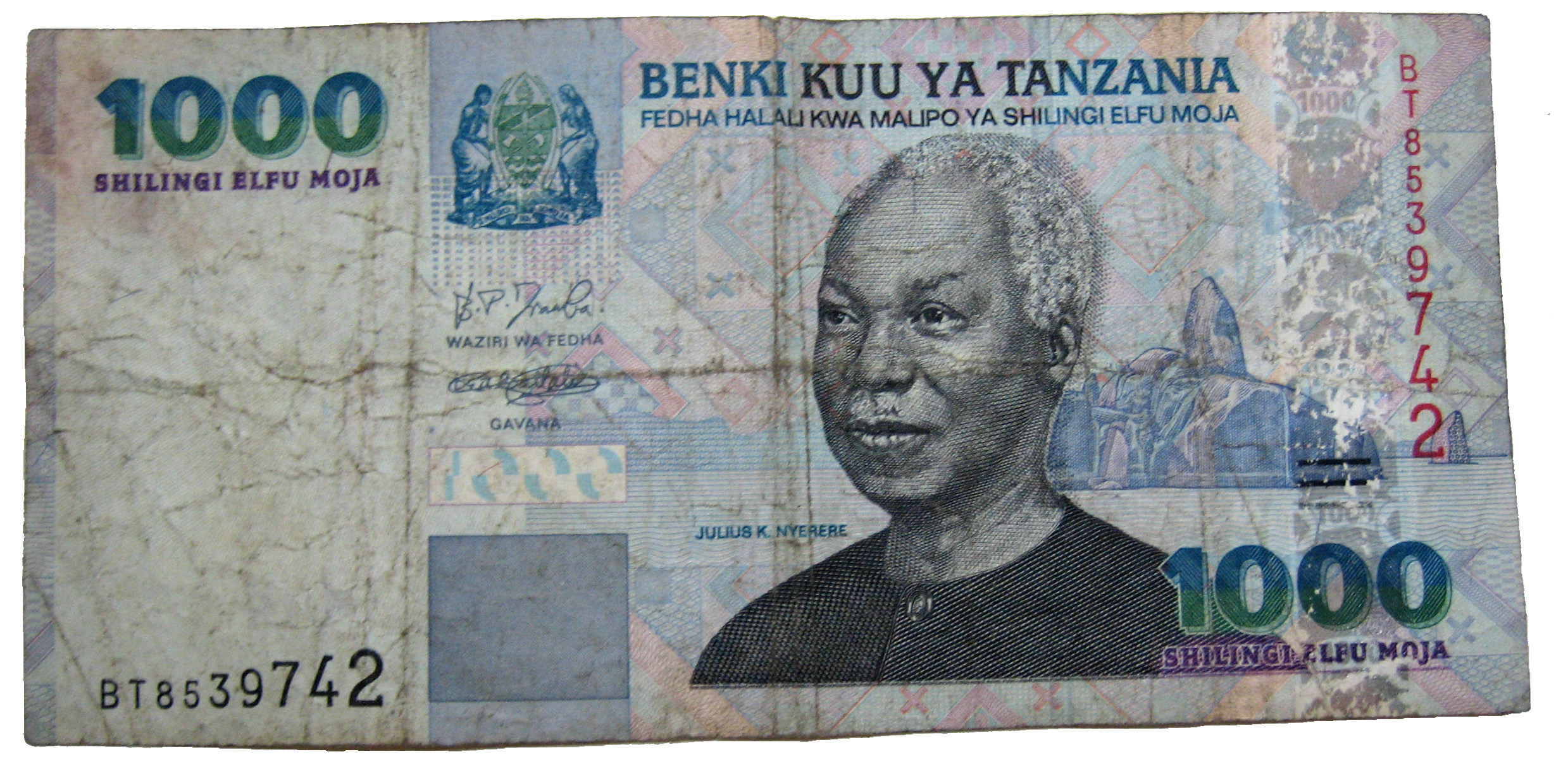 1000 Tanzanian shillings note, front, displaying Julius Nyerere's portrait.